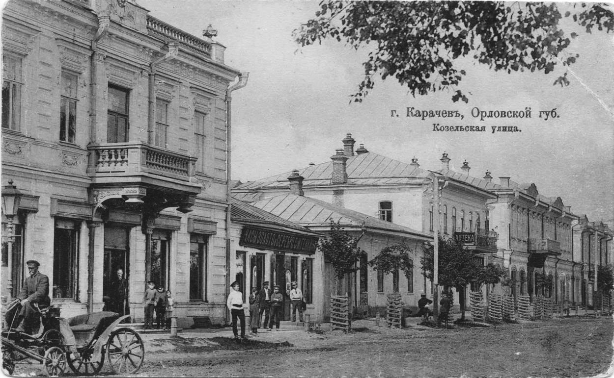 Russia, Bryansk oblast. Karachev in 1900's.